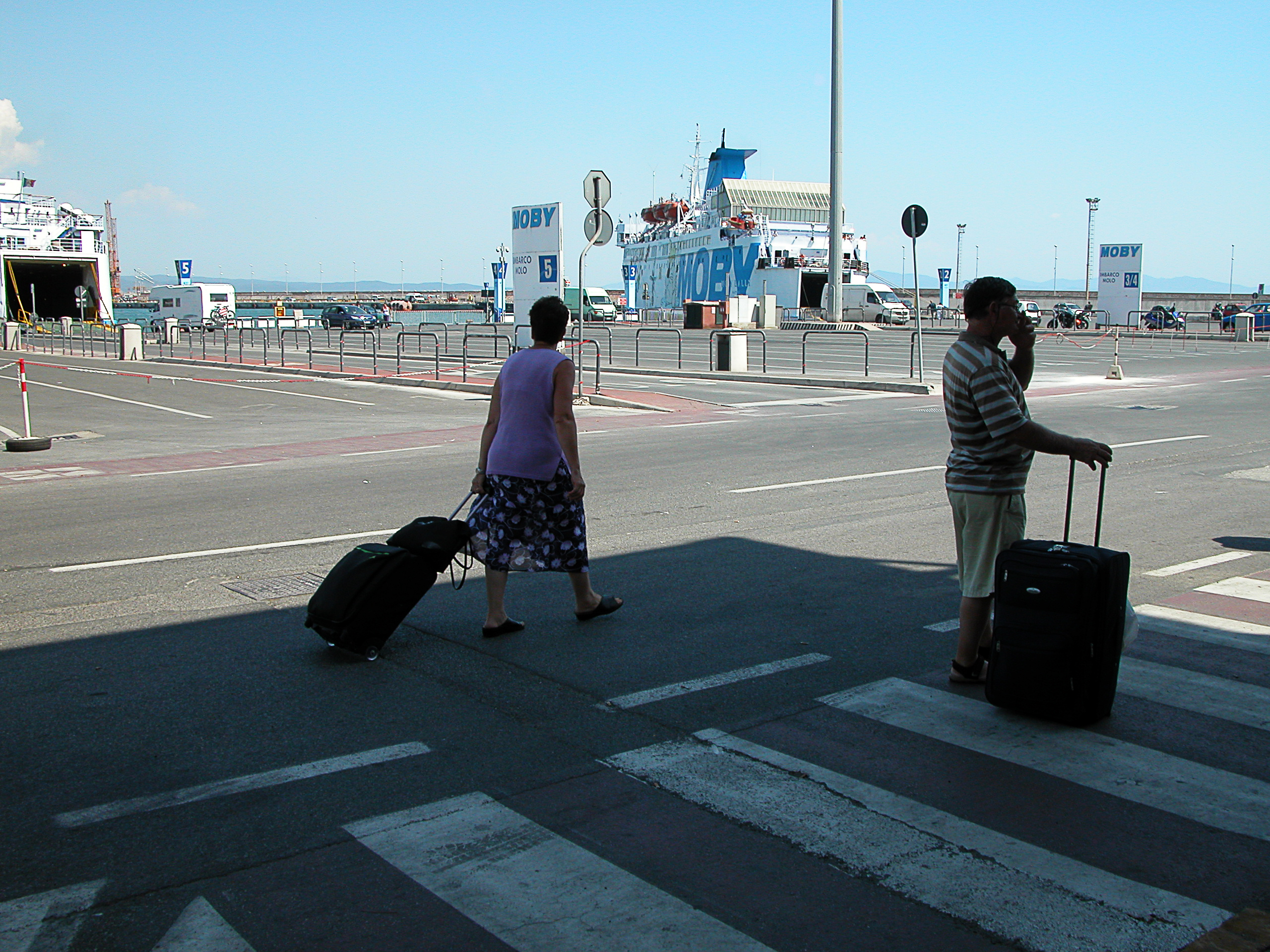 Boarding area to the ferries to Elba island at Piombino Marina